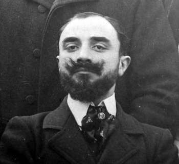 Jean Lhermitte as an intern at La Salpêtrière hospital in 1901